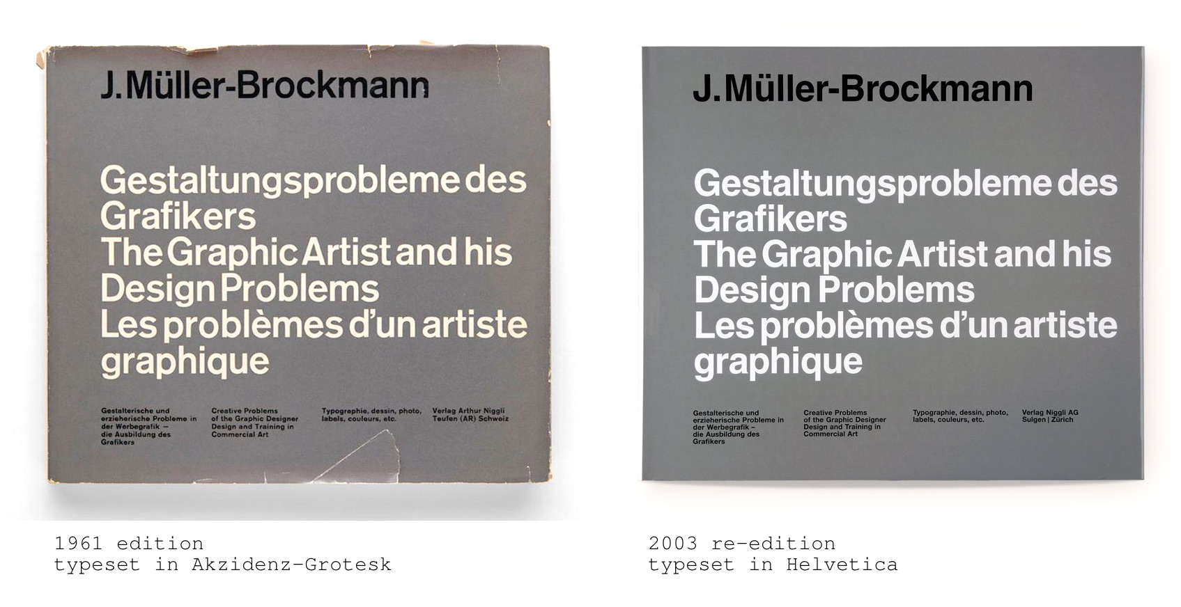 Comparison of two editions of the book “Gestaltungsprobleme des Grafikers / The Graphic Artist and his Design Problems / Les problèmes d'un artiste graphique” by Josef Müller-Brockmann, first published by Niggli in 1961. The first edition uses the typeface Akzidenz-Grotesk on the cover. In later editions the cover is set in Helvetica.